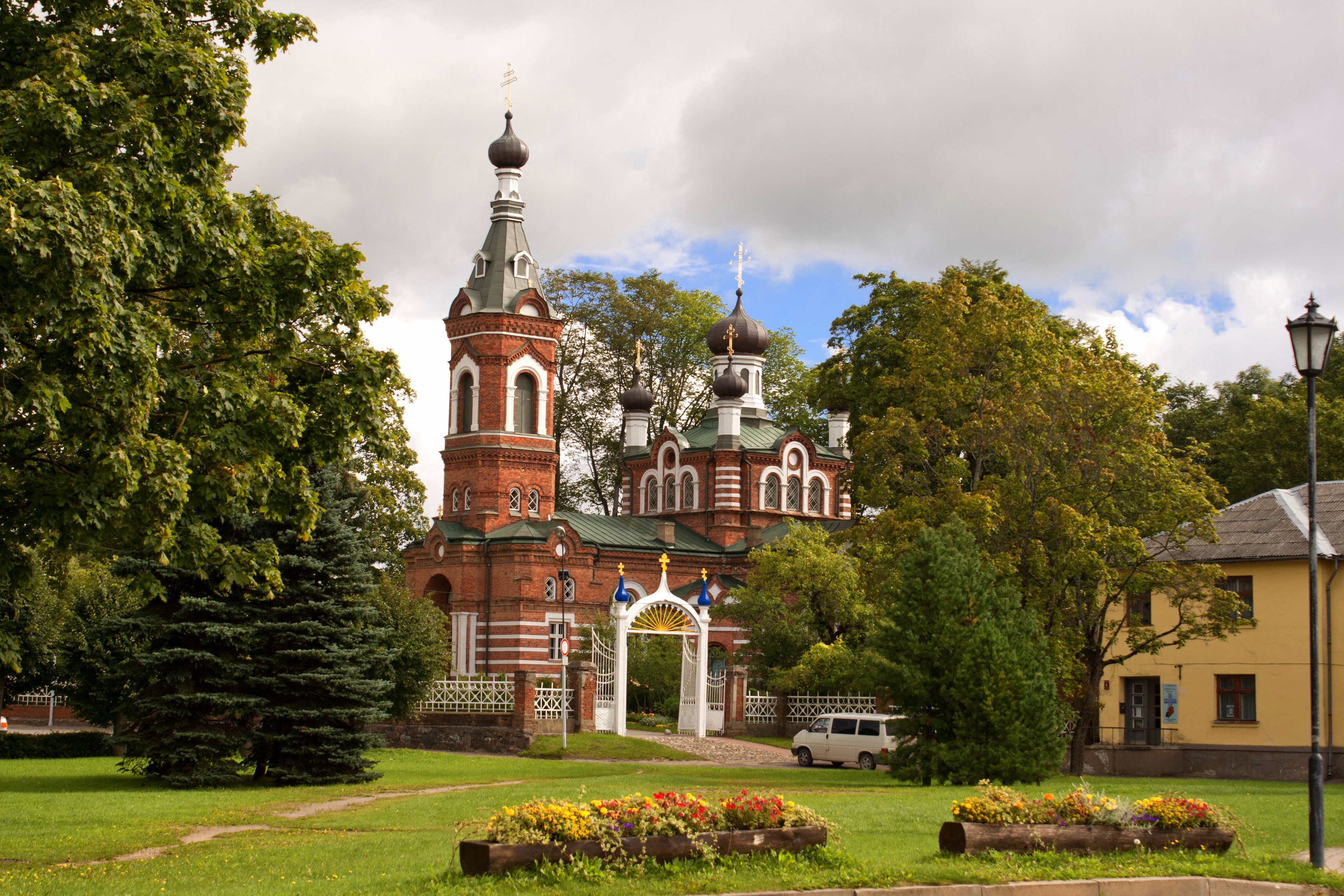 Limbaži Transfiguration of Christ Orthodox Church